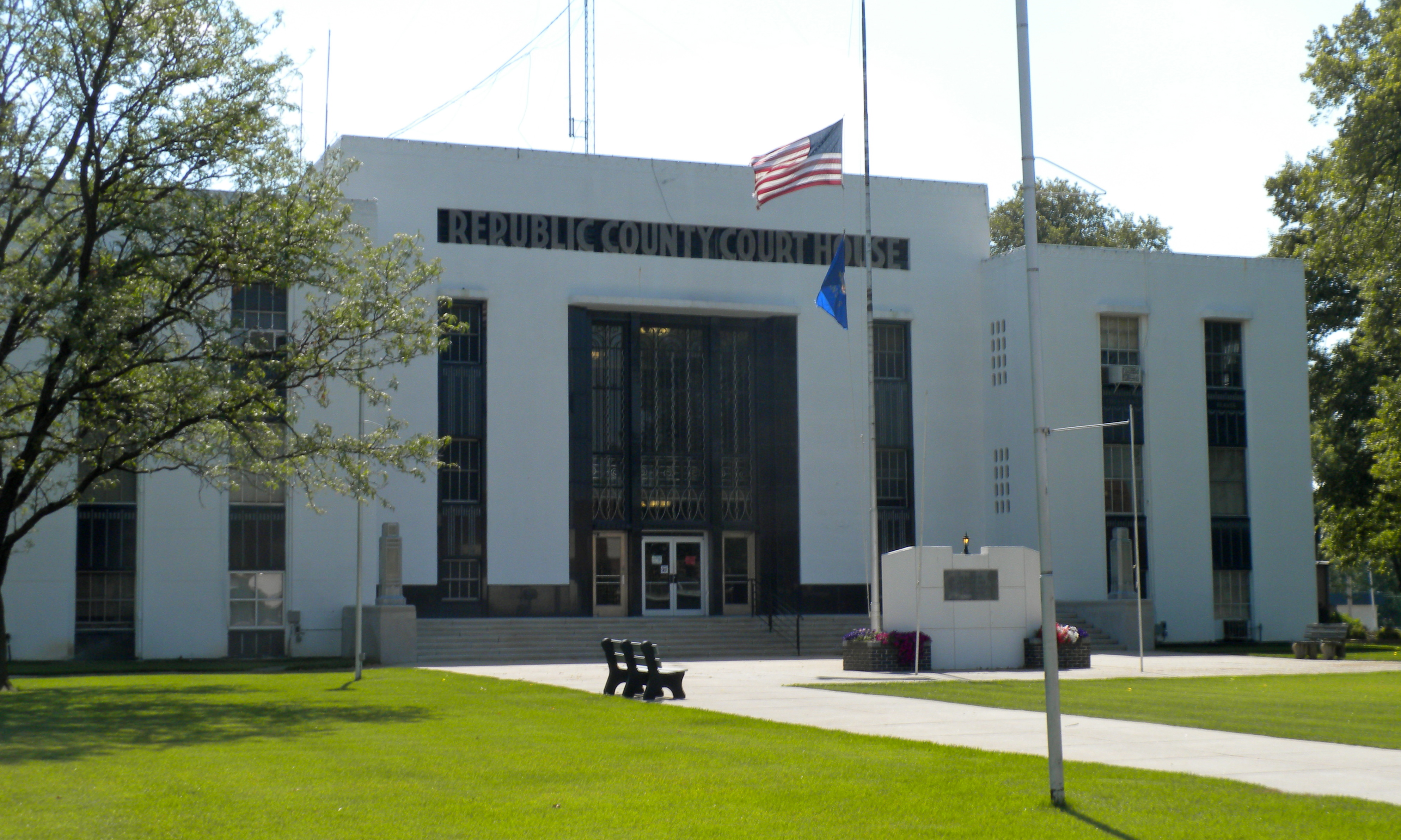 Republic County (Kansas) Courthouse. On the NRHP since April 26, 2002. Bounded by M St., 18th St., N St., and 19th St. in Belleville, Kansas. Building completed in 1940.